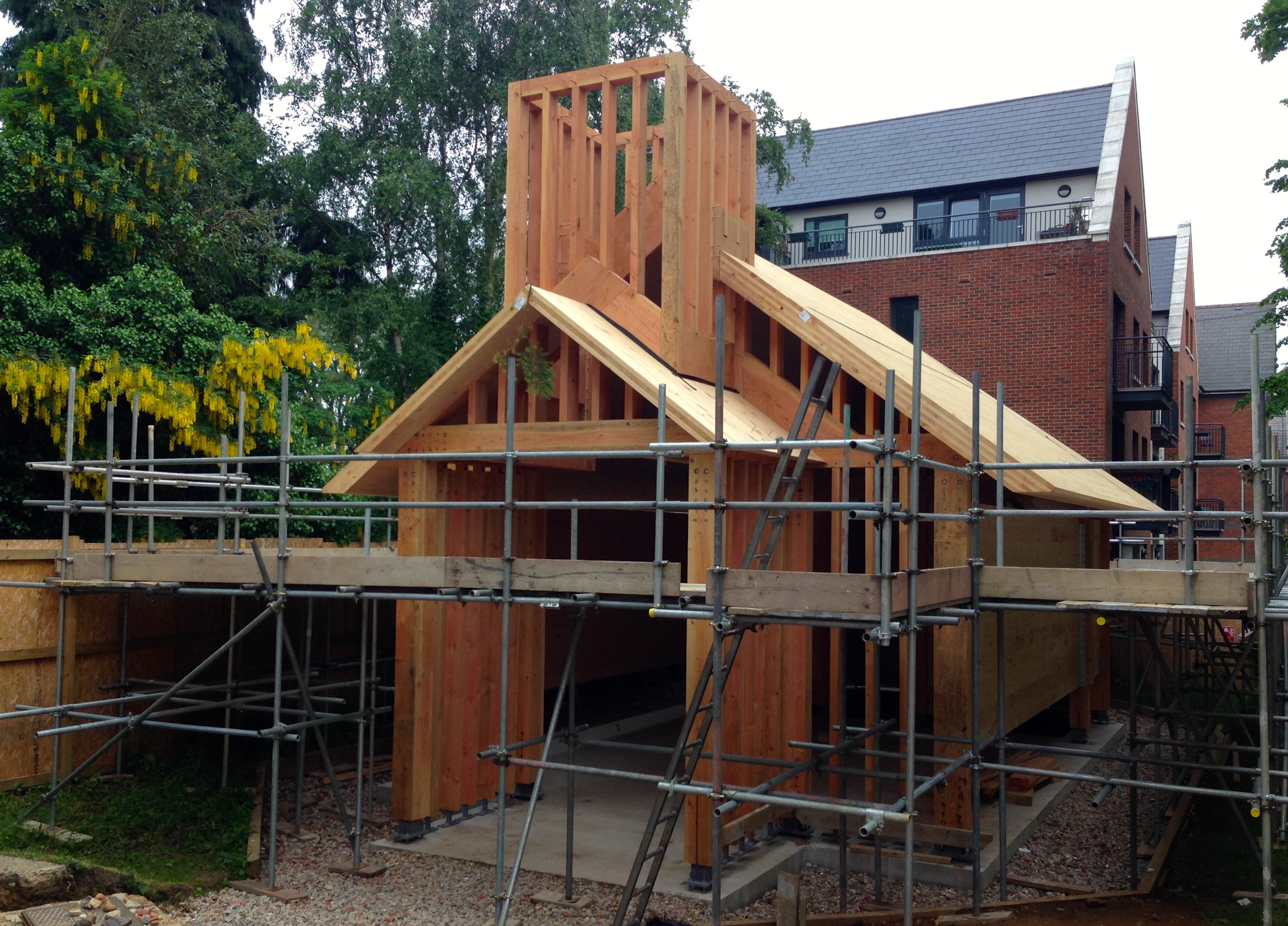 Church of St Cyril of Turaŭ and All the Patron Saints of the Belarusian People, Woodside Park, London N12, while it was being built in June 2016